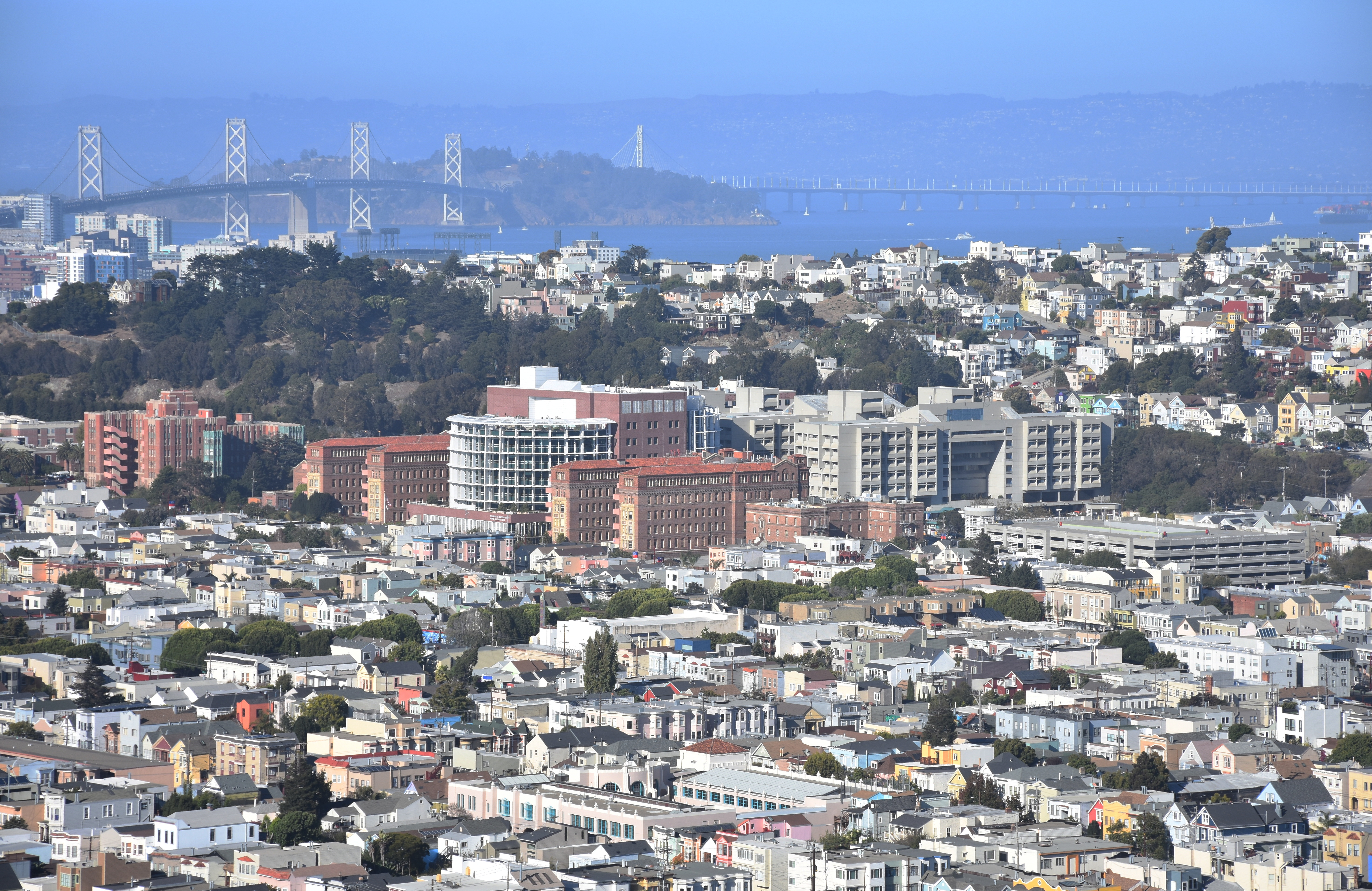 The Zuckerberg San Francisco General Hospital (SFGH) as seen from Bernal Heights, with the southeastern part of the Mission District in the foreground, and Potrero Hill and the Bay Bridge in the background toward the left